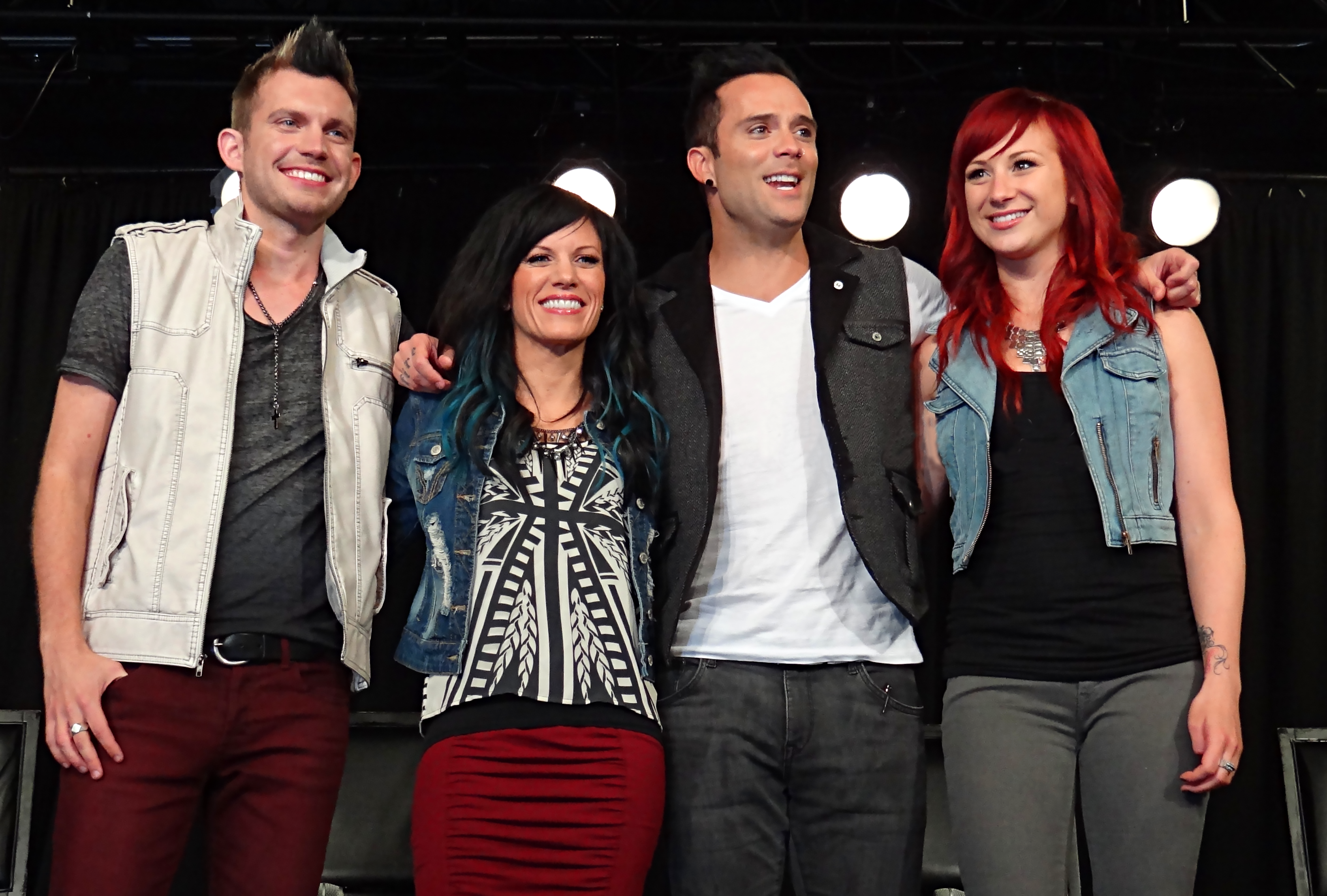 Skillet at The Road to Rise VIP Experience in Nashville, TN (6/14/13)